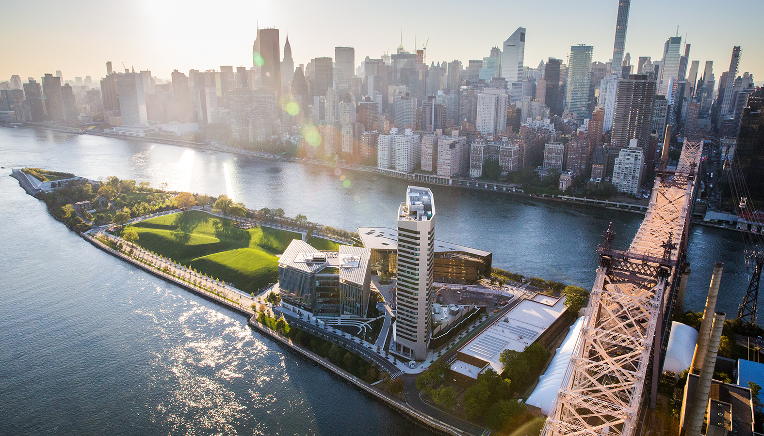 Cornell Tech NYC Campus